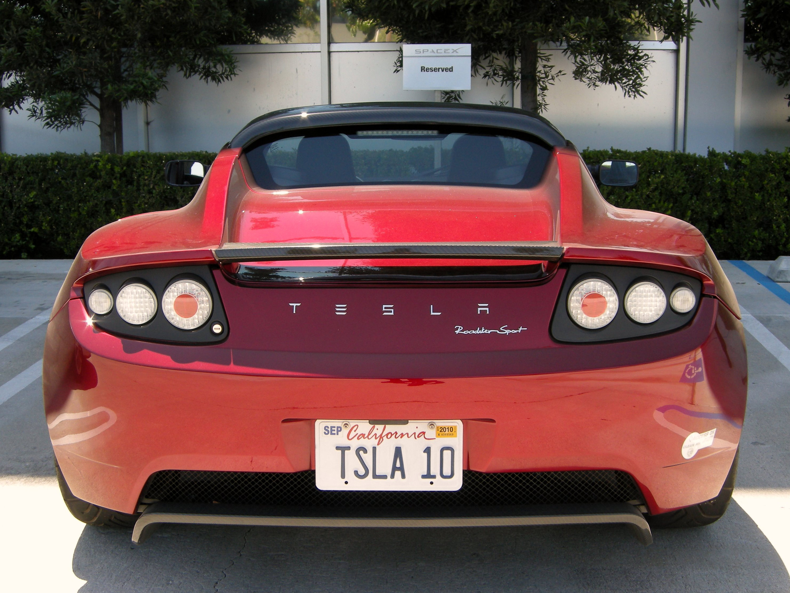 Elon Musk's Tesla Roadster.